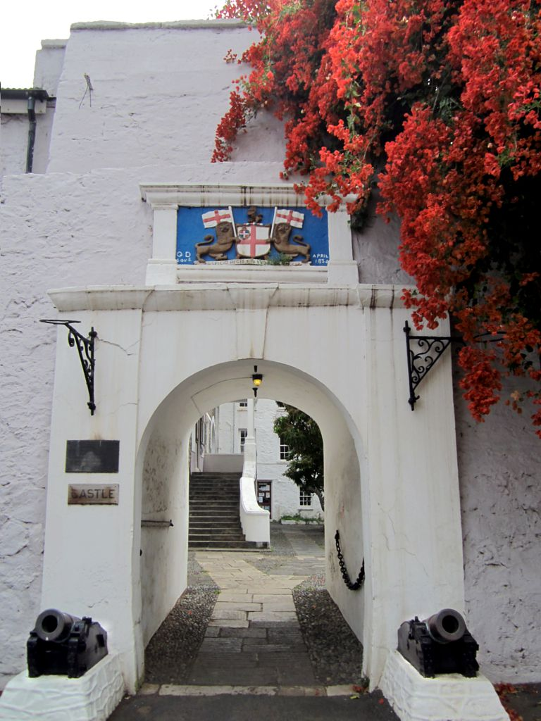 The present Castle (1708) in Jamestown, St Helena Island, stands on the site of a fort built in 1659. The coat of arms of the East India Company is above the entrance.